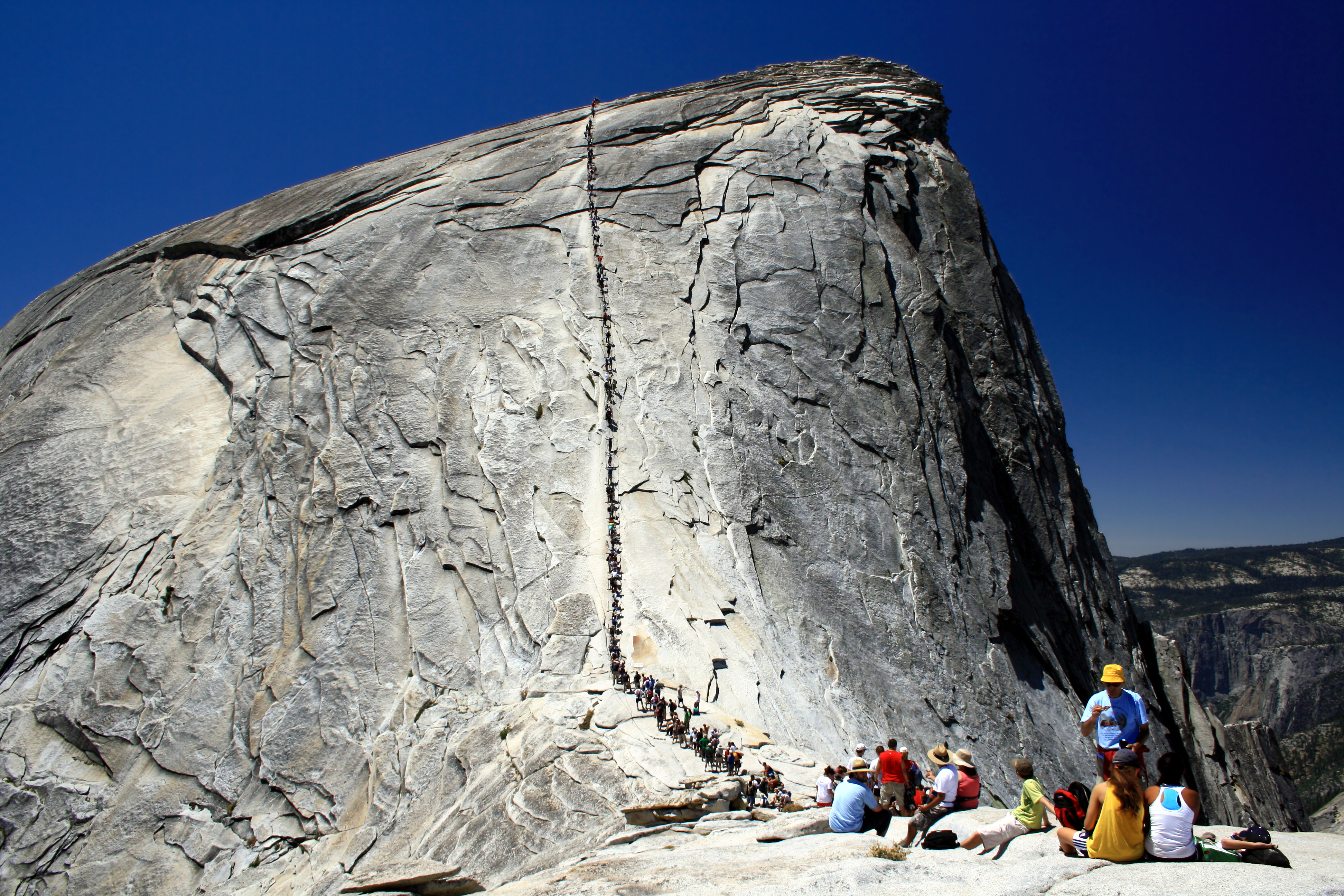 Half Dome, Yosemite National Park